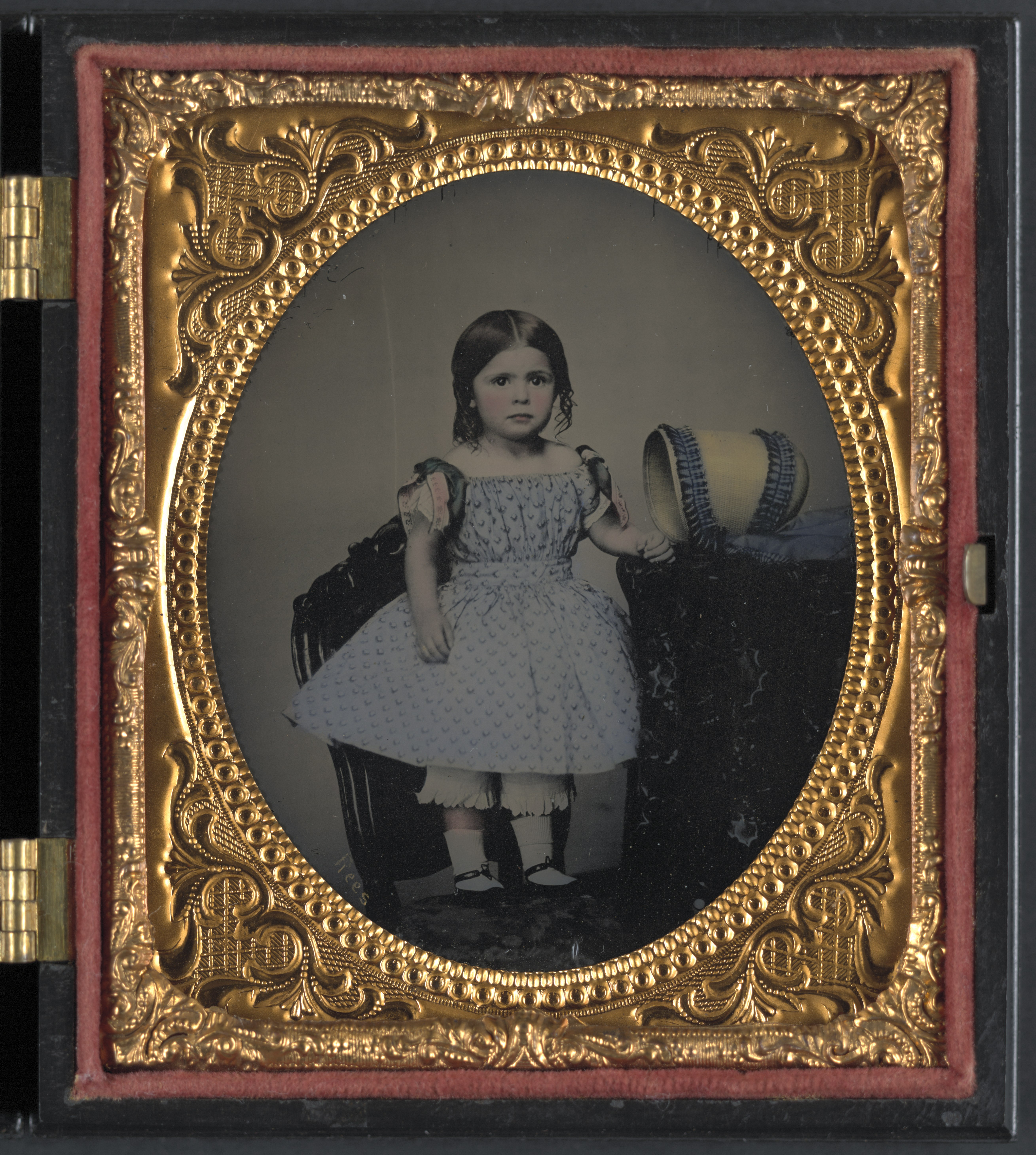 Title: Dora Allison, Little Miss Bonnie Blue, the light of the Confederacy / Rees. Abstract/medium: 1 photograph : sixth-plate ambrotype, hand-colored ; 9.4 x 8.3 cm (case)